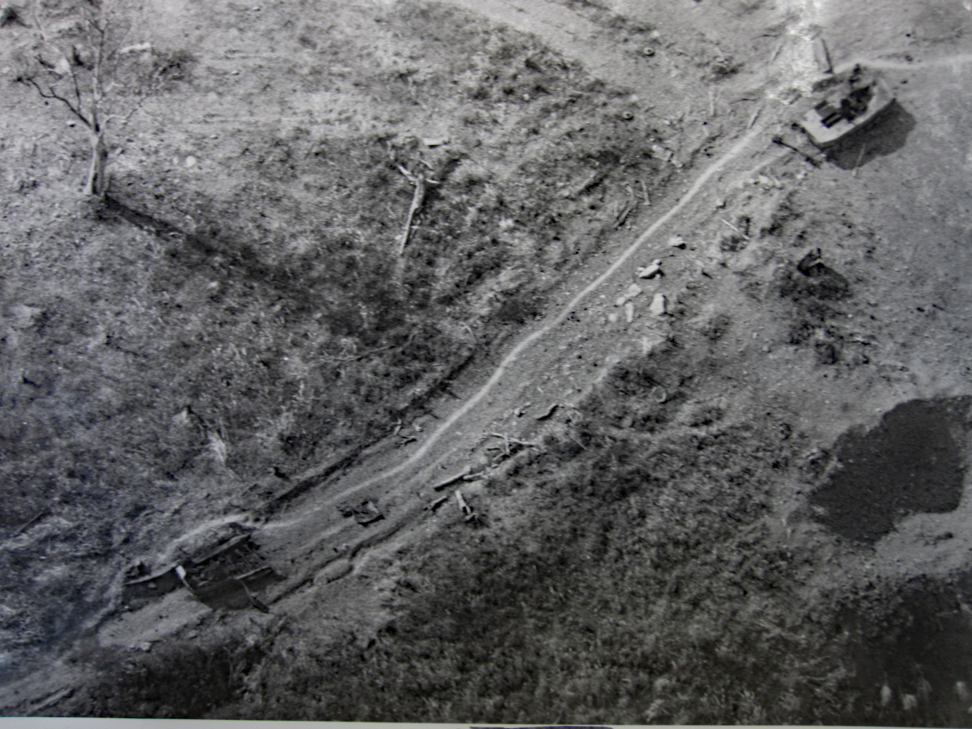 An NVA Pt-76 tank, destroyed by American anti-tank weapons, lies dormant along a road after the battle at the Lang Vei Special Forces Camp. Source: I Corps Vietnam: An Aerial Retrospective by COL Thomas Pike.